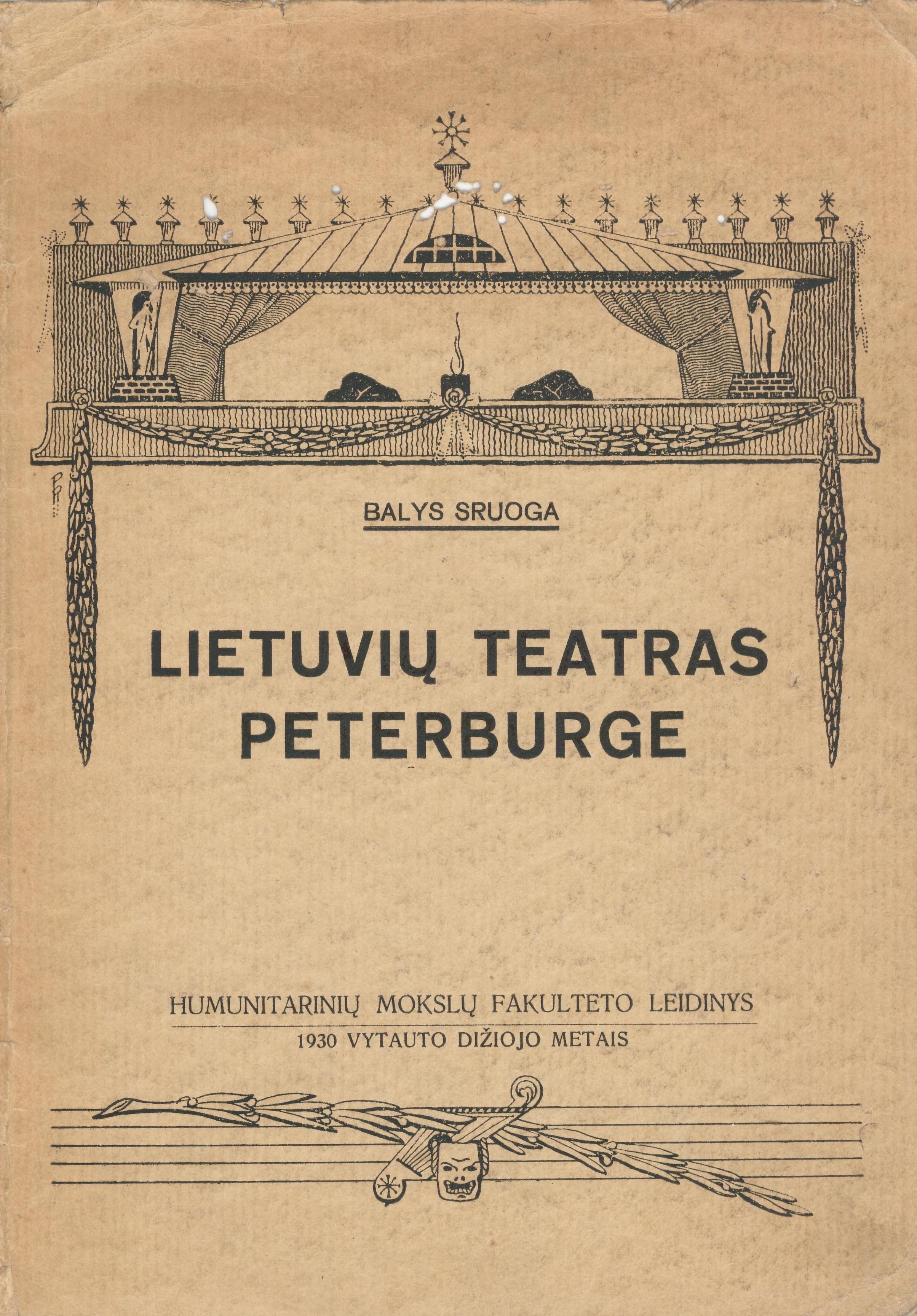 Cover of the book by Balys Sruoga (1896—1947), Lithuanian writer, "Lithuanian theatre in Petersbourgh". 1930. Scan by Alma Pater 18:47, 23 December 2006 (UTC)